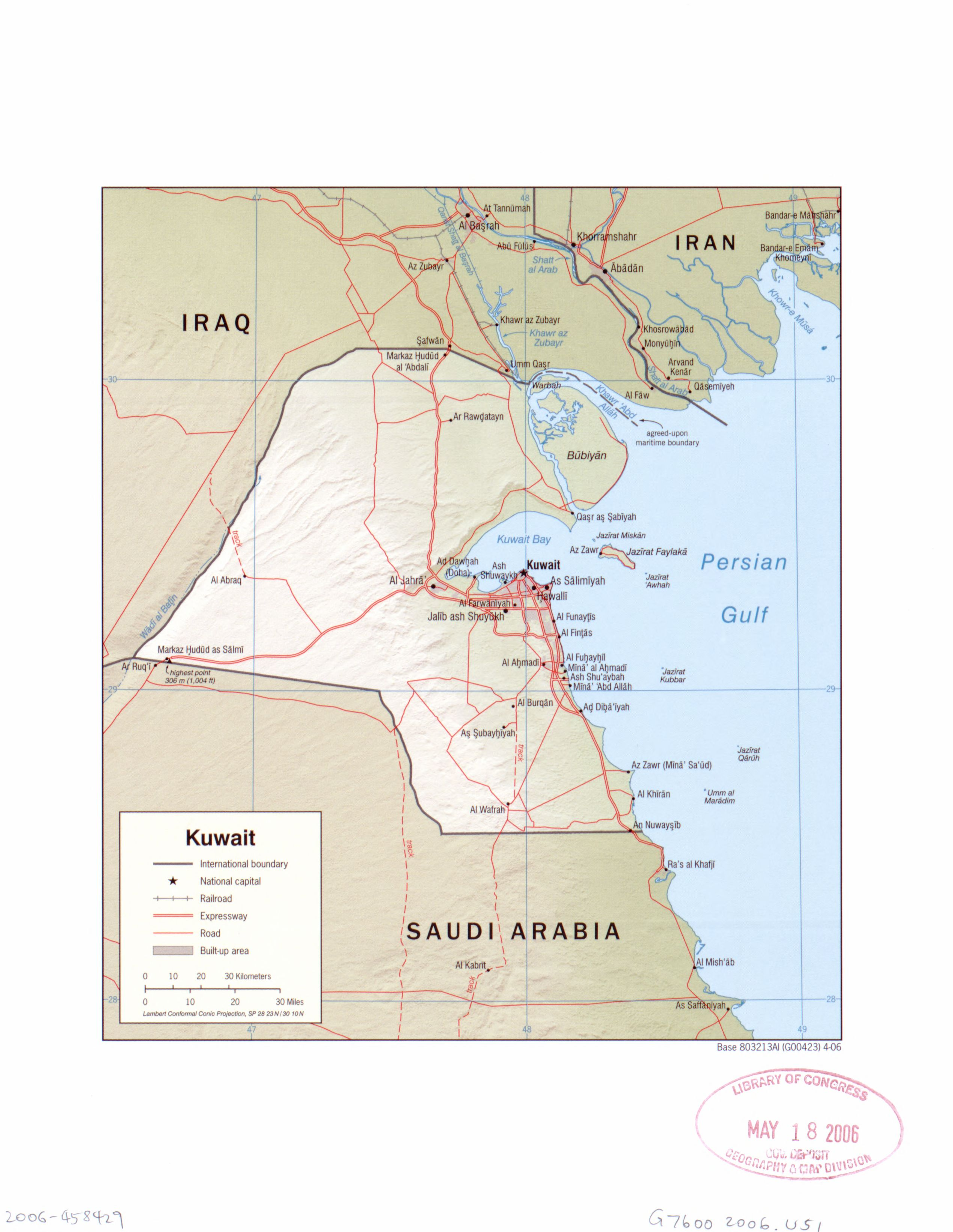 Relief shown by shading. "Base 803213AI (G00423) 4-06." Available also through the Library of Congress Web site as a raster image.